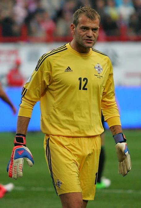 Roy Carroll representing Northern Ireland against Russia in FIFA World Cup qualifier in 2012.